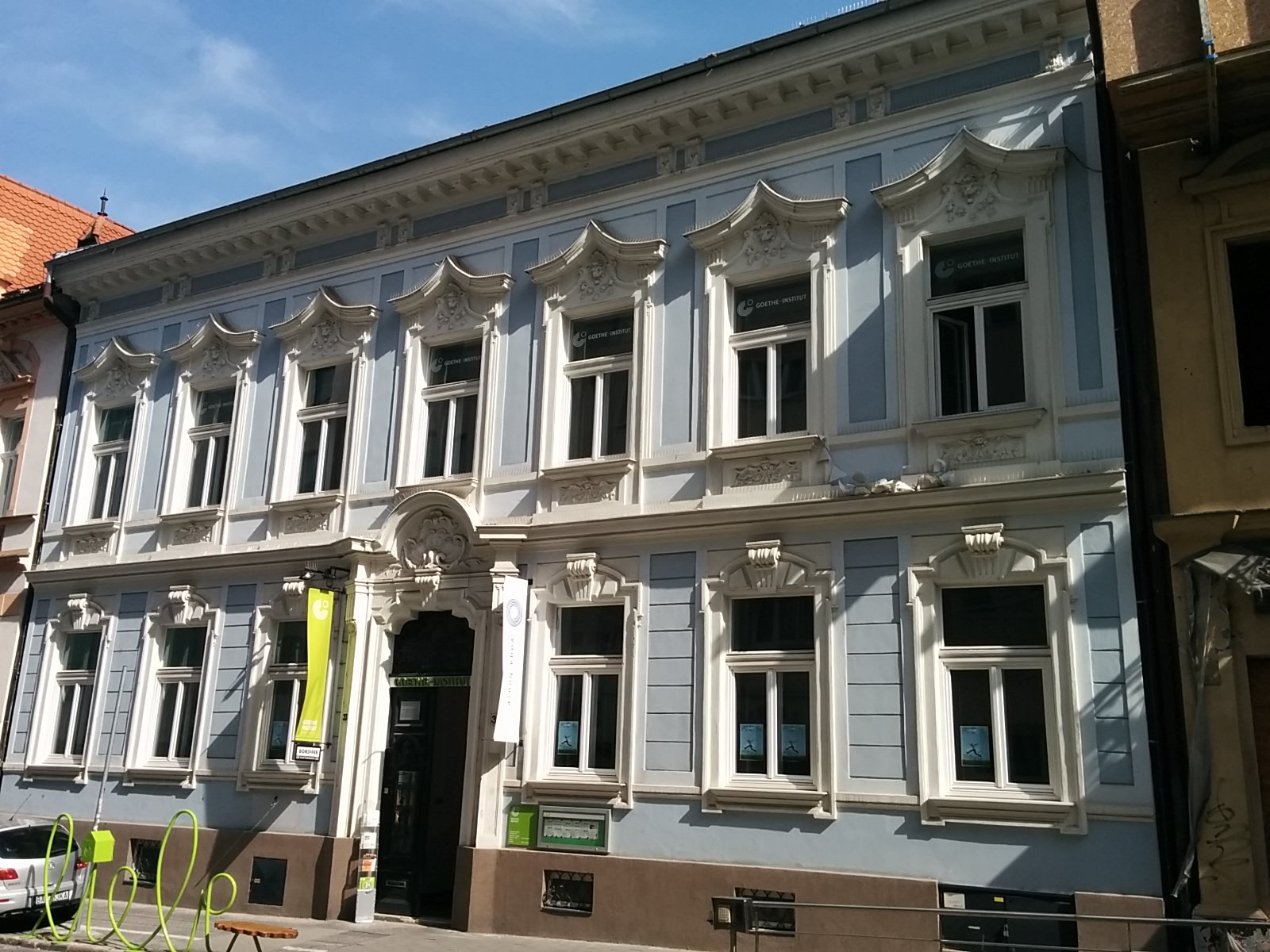 Goethe Institute building on Panenská Street in Bratislava, Slovakia.